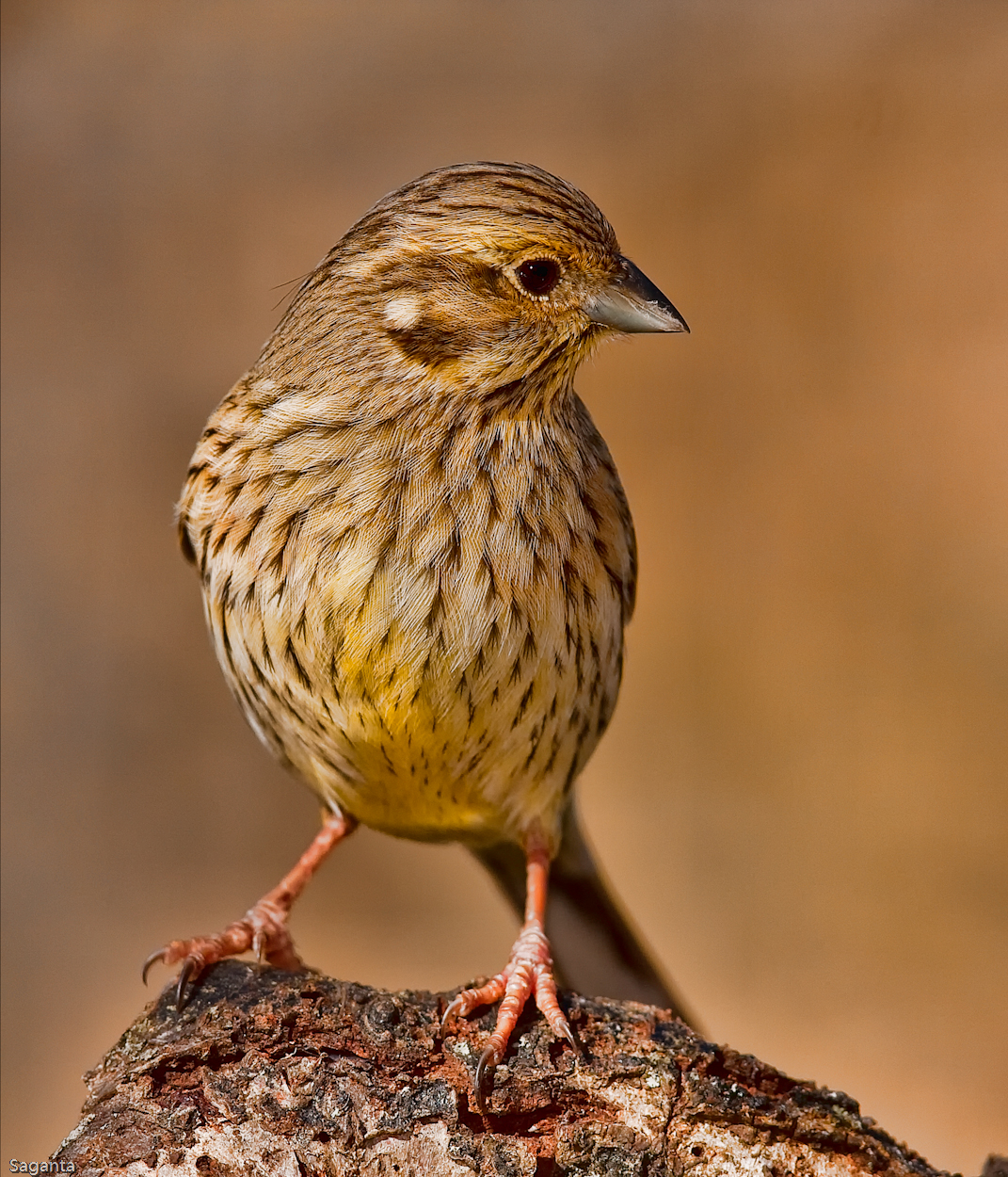 A female Cirl Bunting in Valencian Community, Spain.